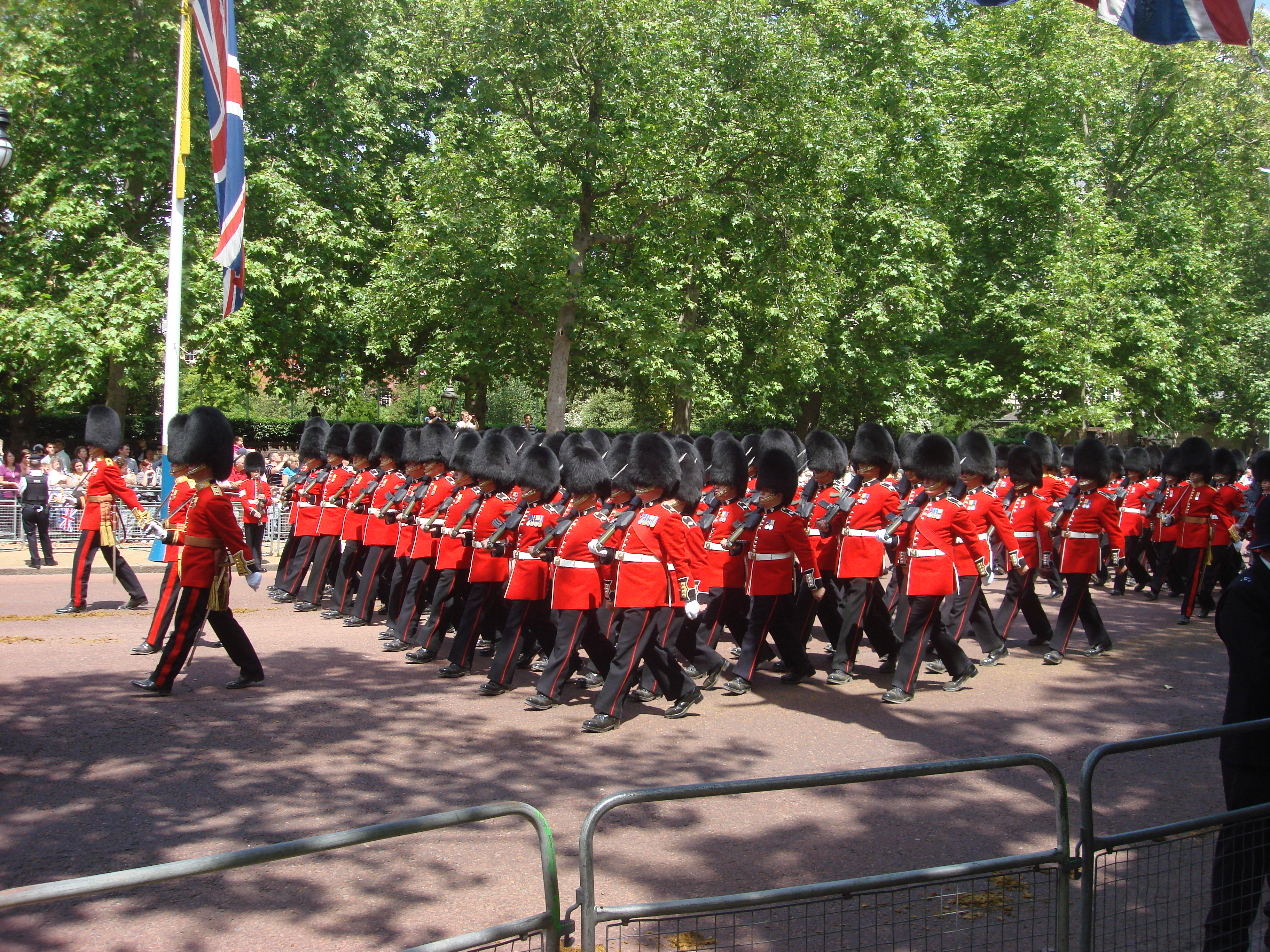 Trooping the Colour 2009